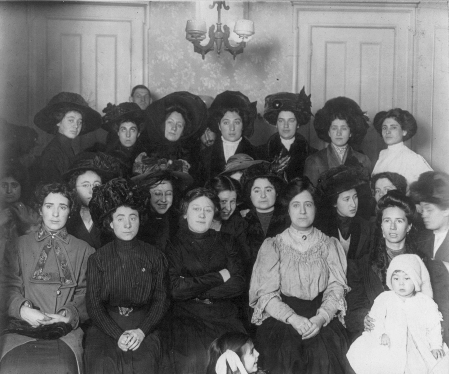 Group of mainly female shirtwaist workers on strike, in a room, New York